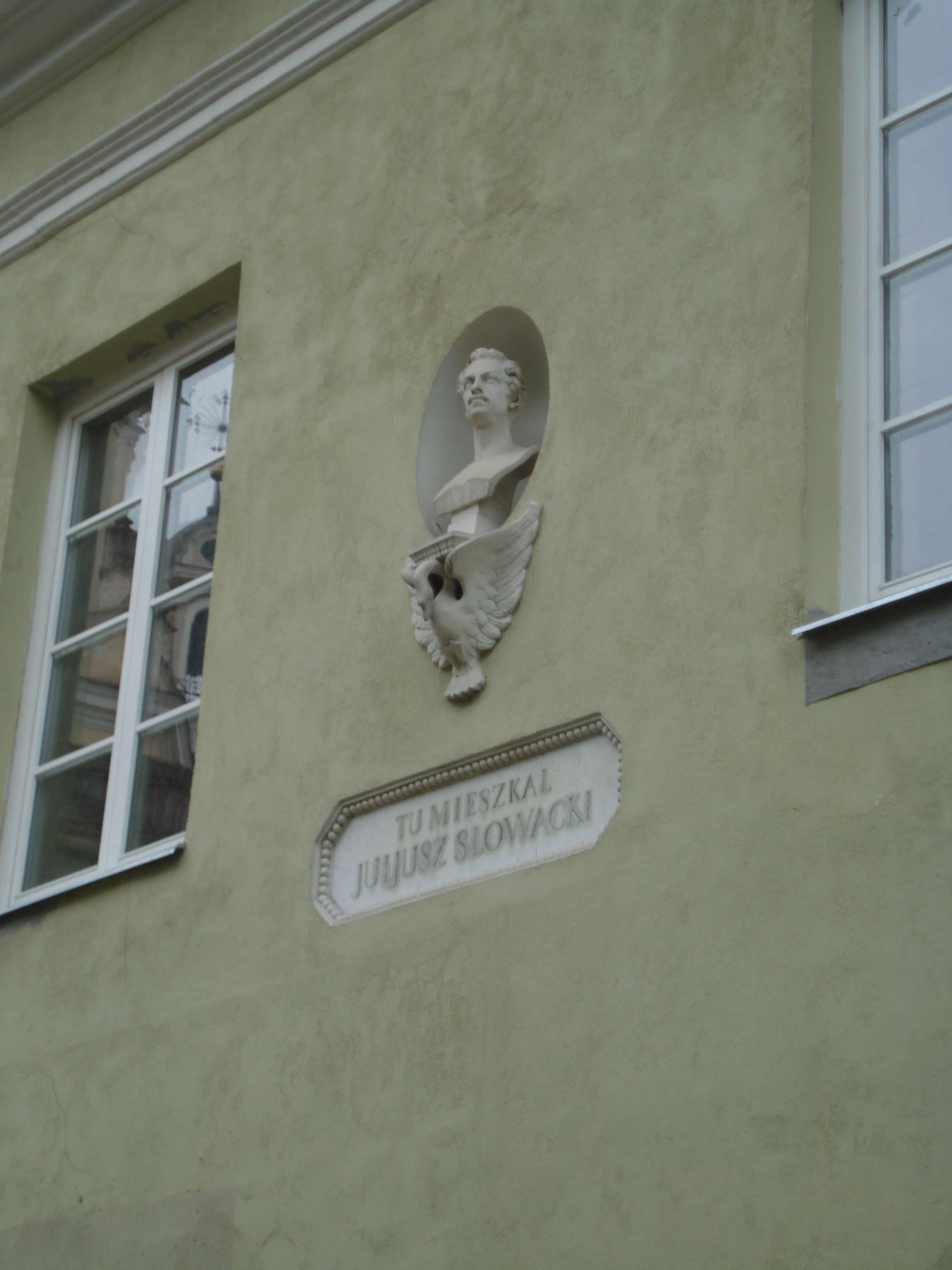 Juliusz Słowacki memorial tablet in Vilnius